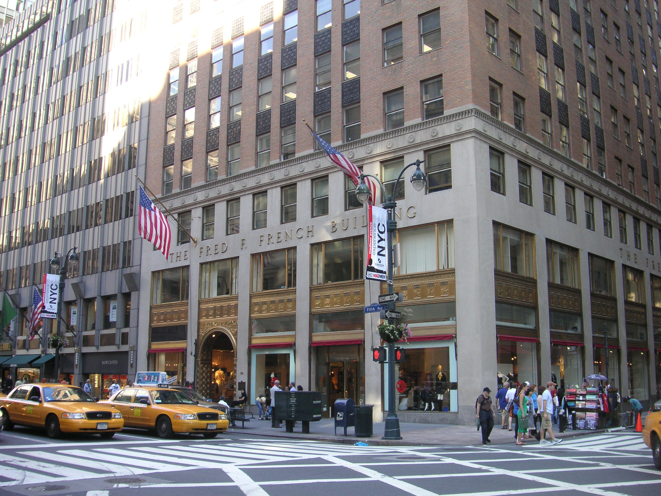 Fred F French Building 5th Avenue